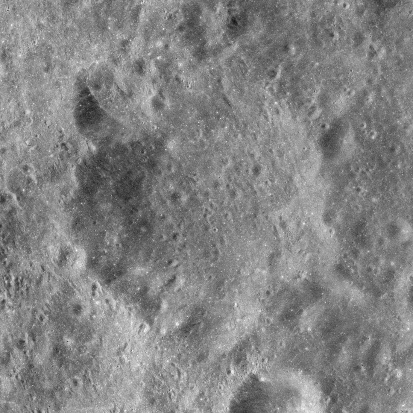 Zanstra, on the far side of the moon. Sun angle 53 deg, camera altitude 124 km.